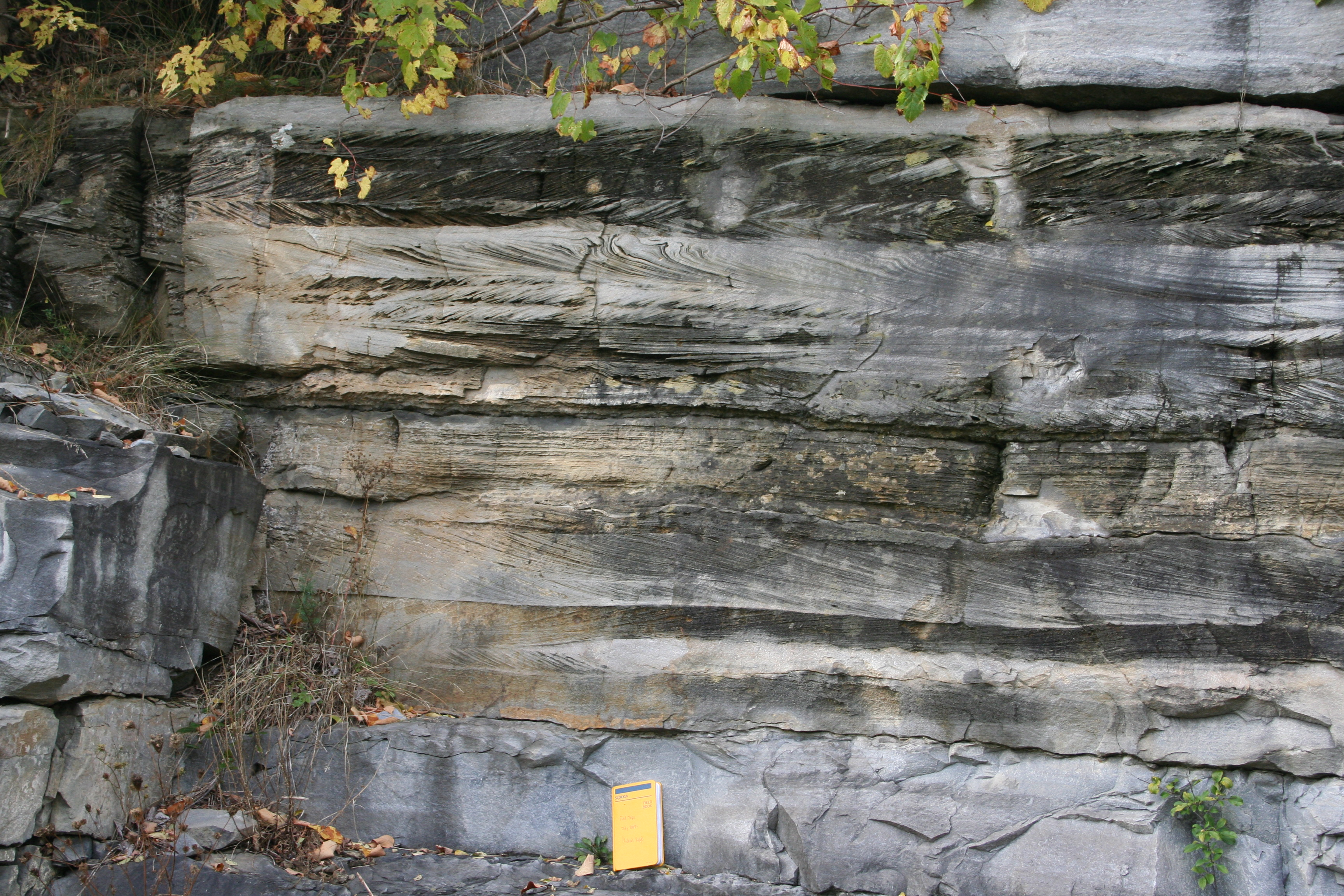 Bidirectional cross-bedding in a quartz arenite sandstone; Beekmantown Group (Ordovician), just north of Ticonderoga, NY.